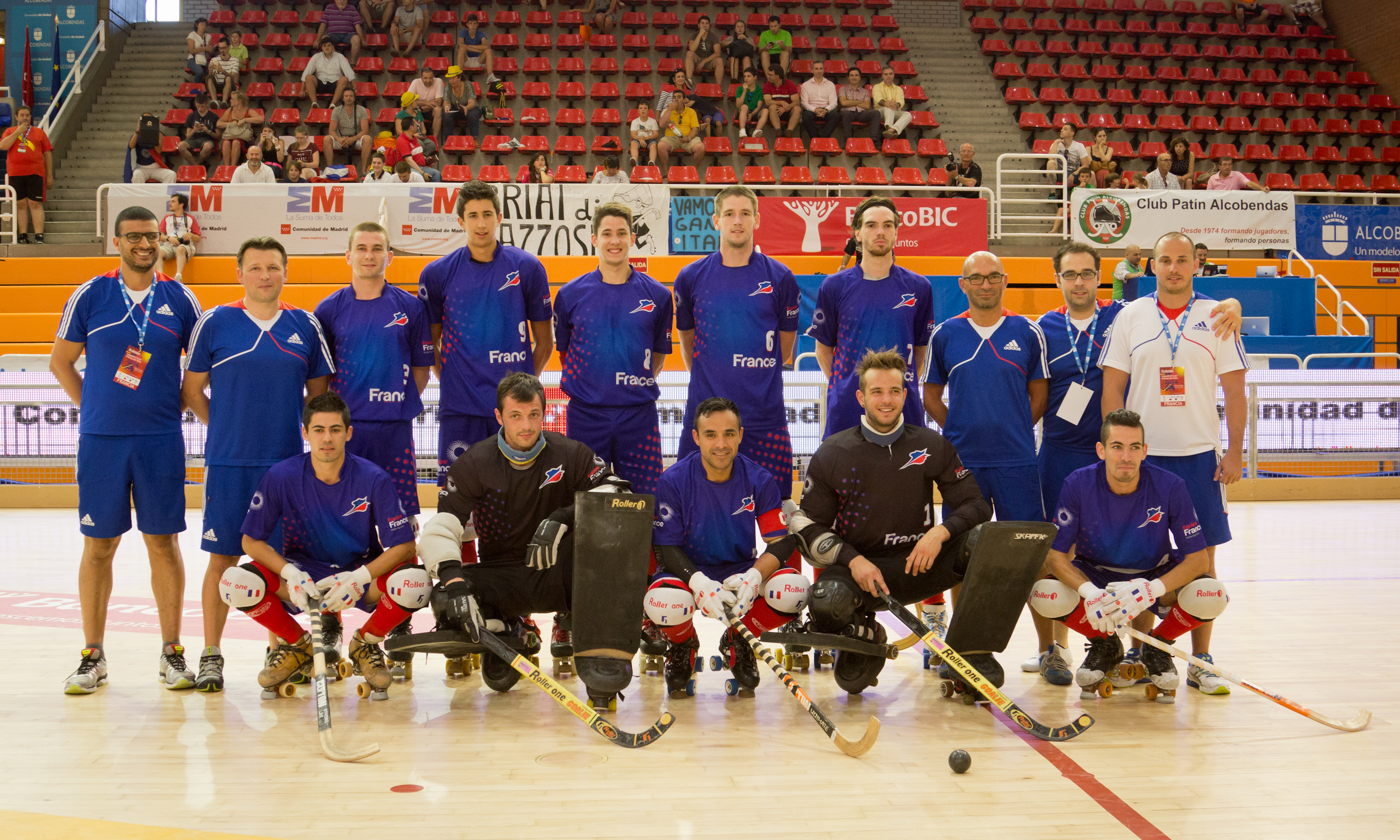 France national roller hockey team at the 2014 CERH Championship in Alcobendas, Spain.